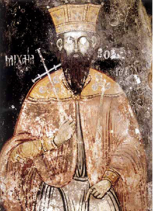 Ktitor icon of king Boris I in "St.Naum" monastery in Ohrid